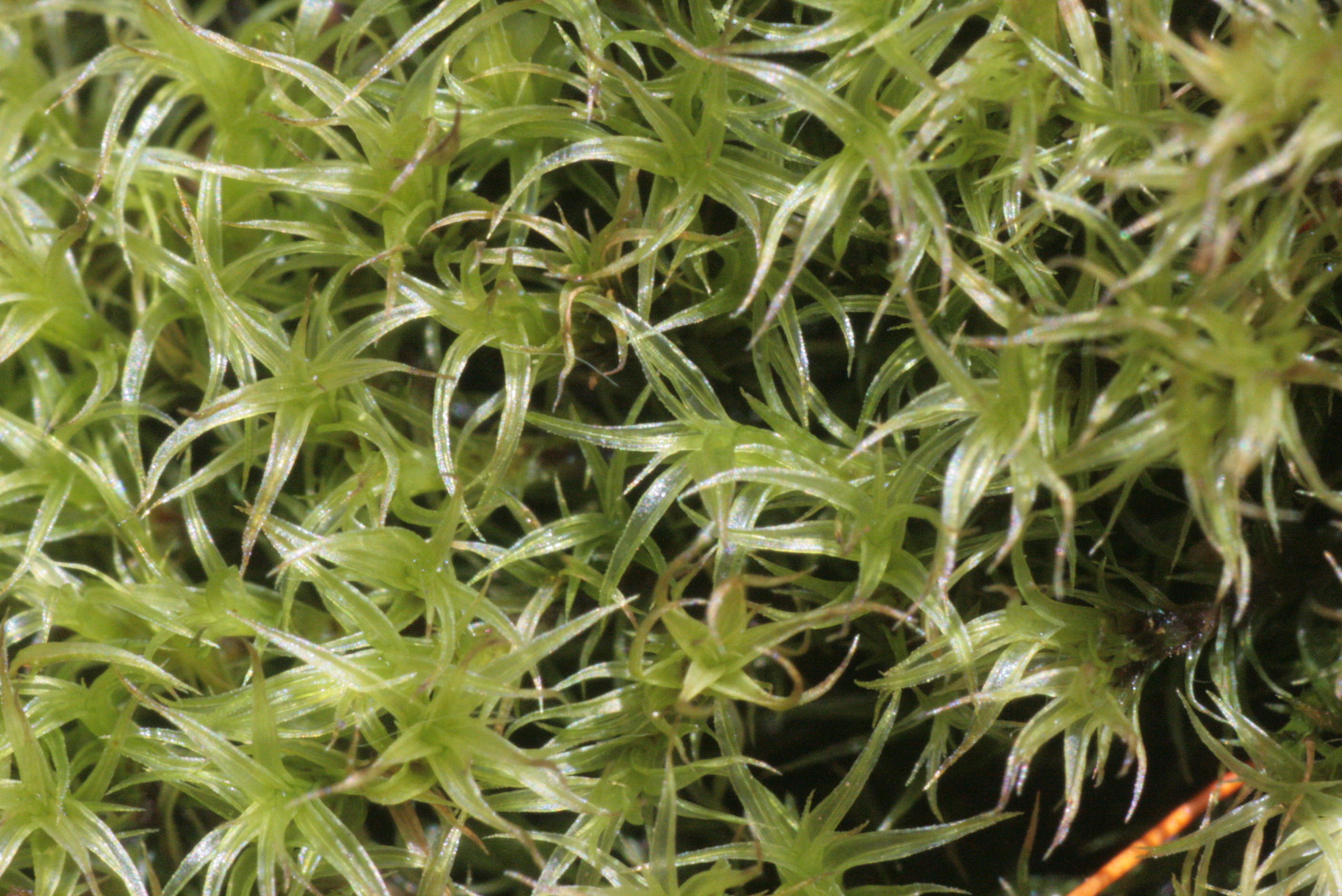 Plagiopus oederianus